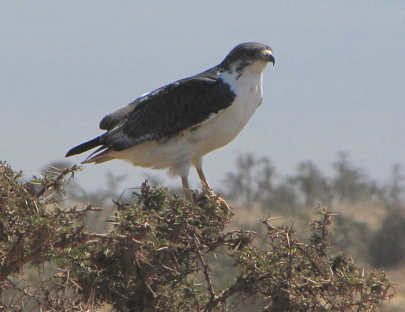 Augur Buzzard (Buteo augur) taken in Lake Manyara Park, Tanzania